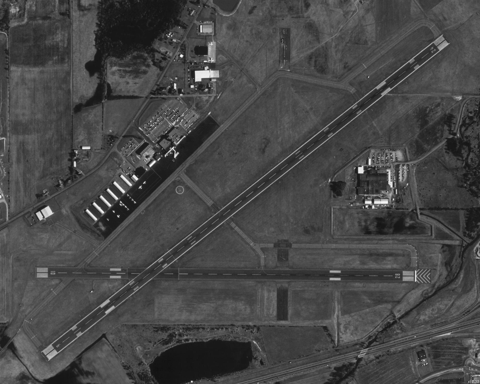 Aerial image of Elmira/Corning Regional Airport in New York, United States.